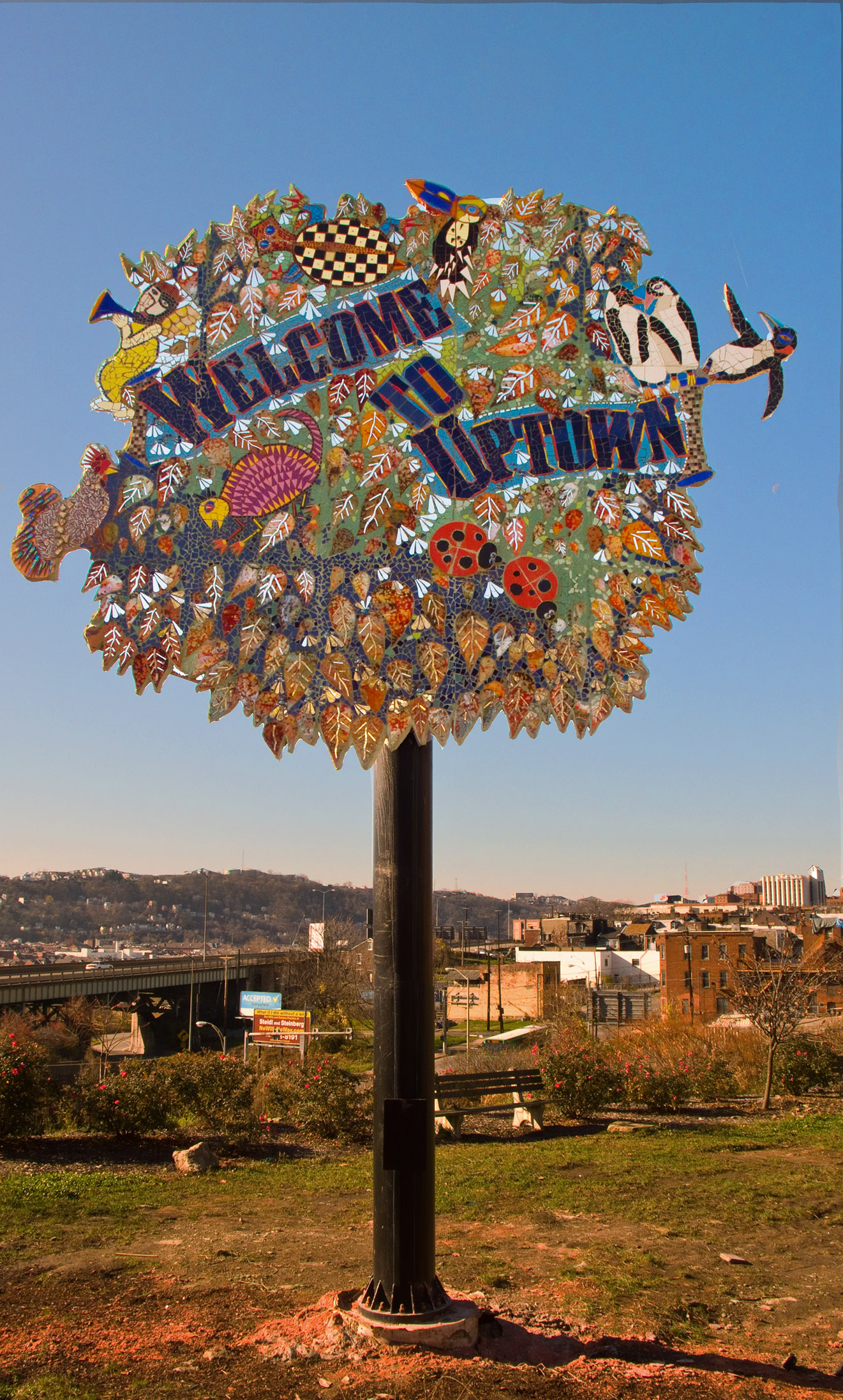 Welcome to Uptown mosaic sign by James Simon